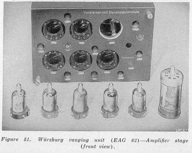 würzburg radar amplifier with tubes RV12P2000 and there fittings